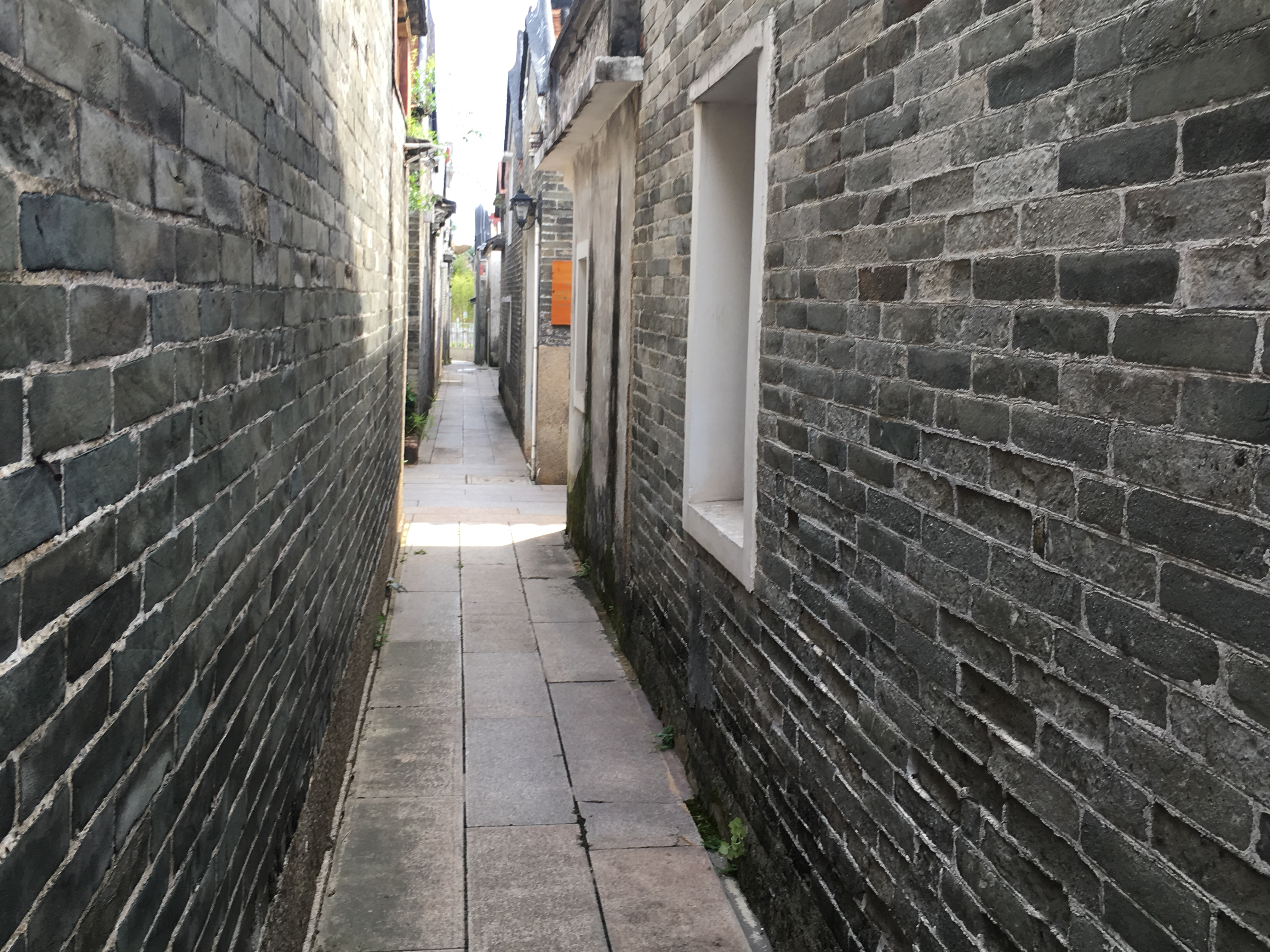 Fuyong, Shenzhen